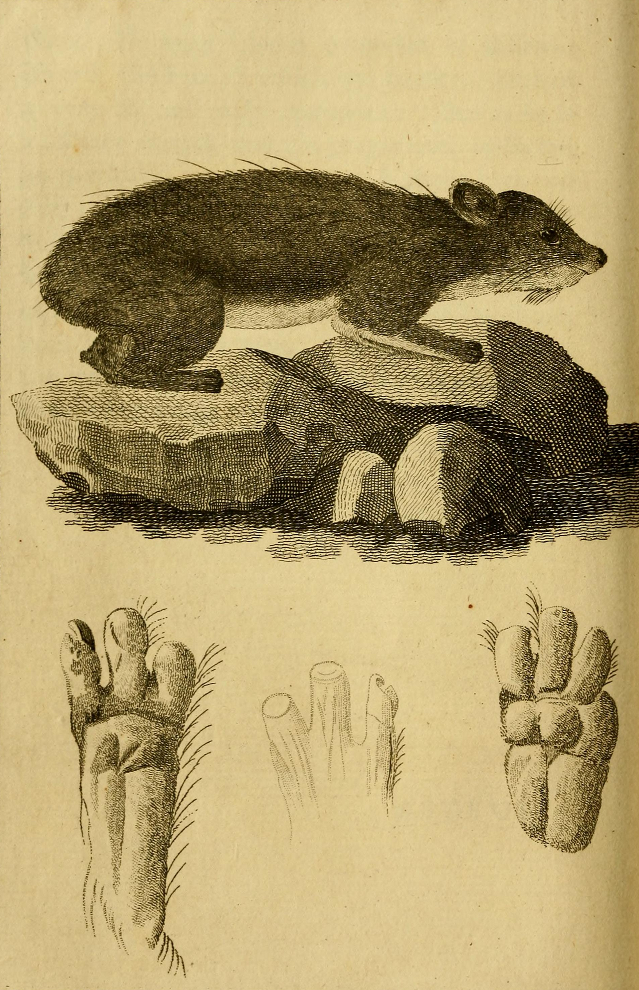 Drawing of Heterohyrax brucei, published by James Bruce: Travels to discover the source of the Nile : in the years 1768, 1769, 1770, 1771, 1772, and 1773. Vol. VI Dublin, 1790 pp. 1–286 (pl. 38)